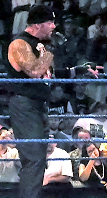 Cropped from PD image, :Image:Undertaker Original uploader: User:Jeffhardywhyx